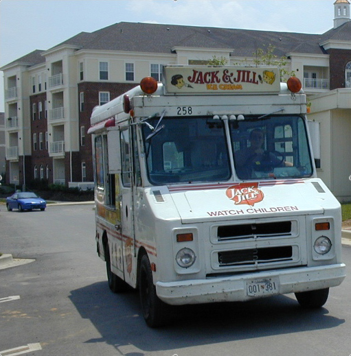 Jack and Jill Ice Cream Truck, taken by David Levinson in Kentlands, Maryland. Released by photographer into public domain